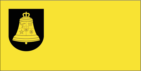 Flag of Moładava